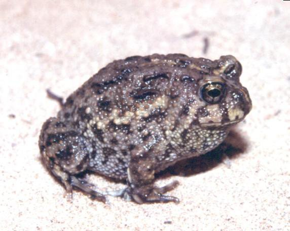 Odontophrynus americanus